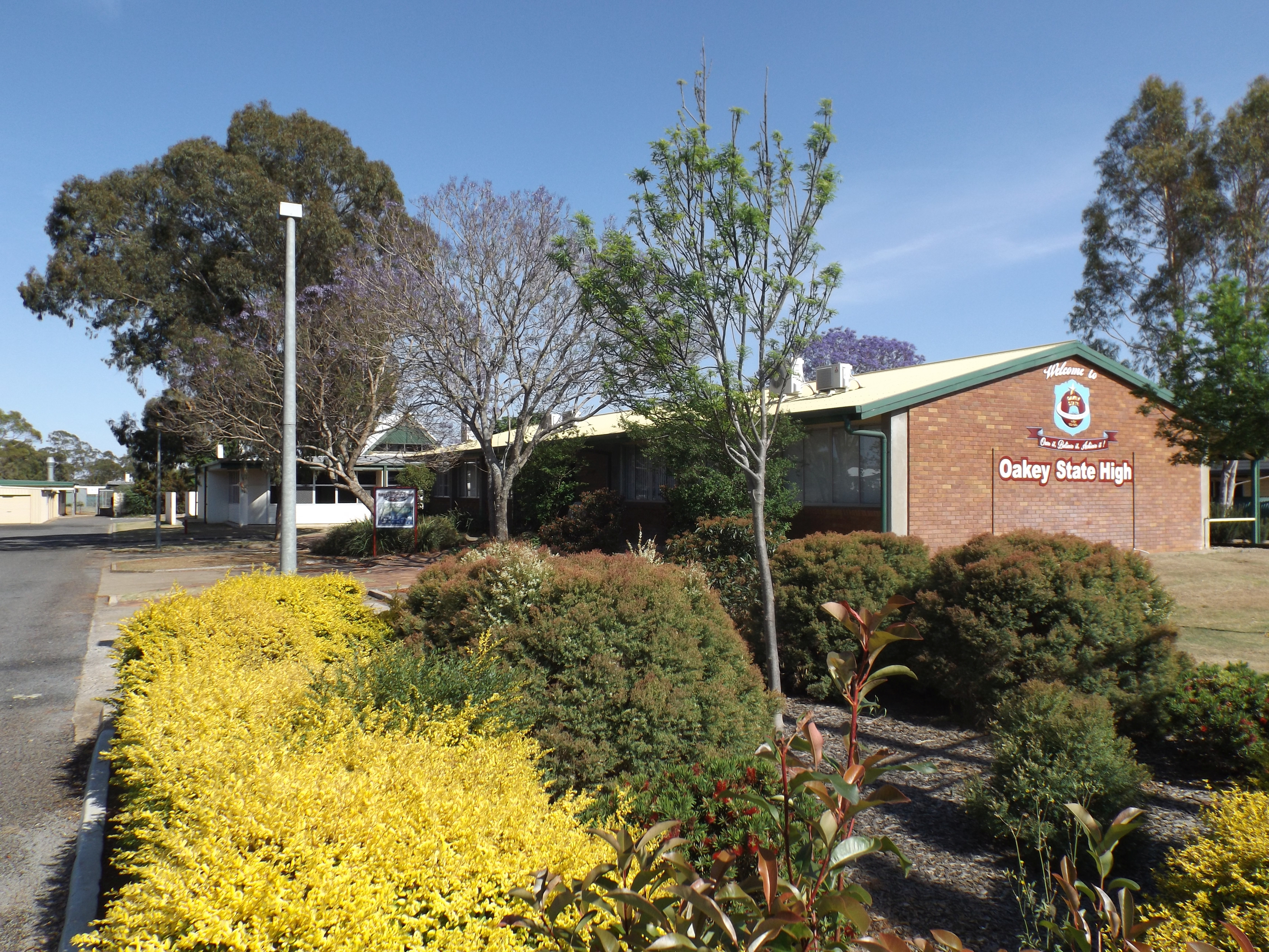 Photo of Oakey State High School at Oakey, Queensland, Australia.